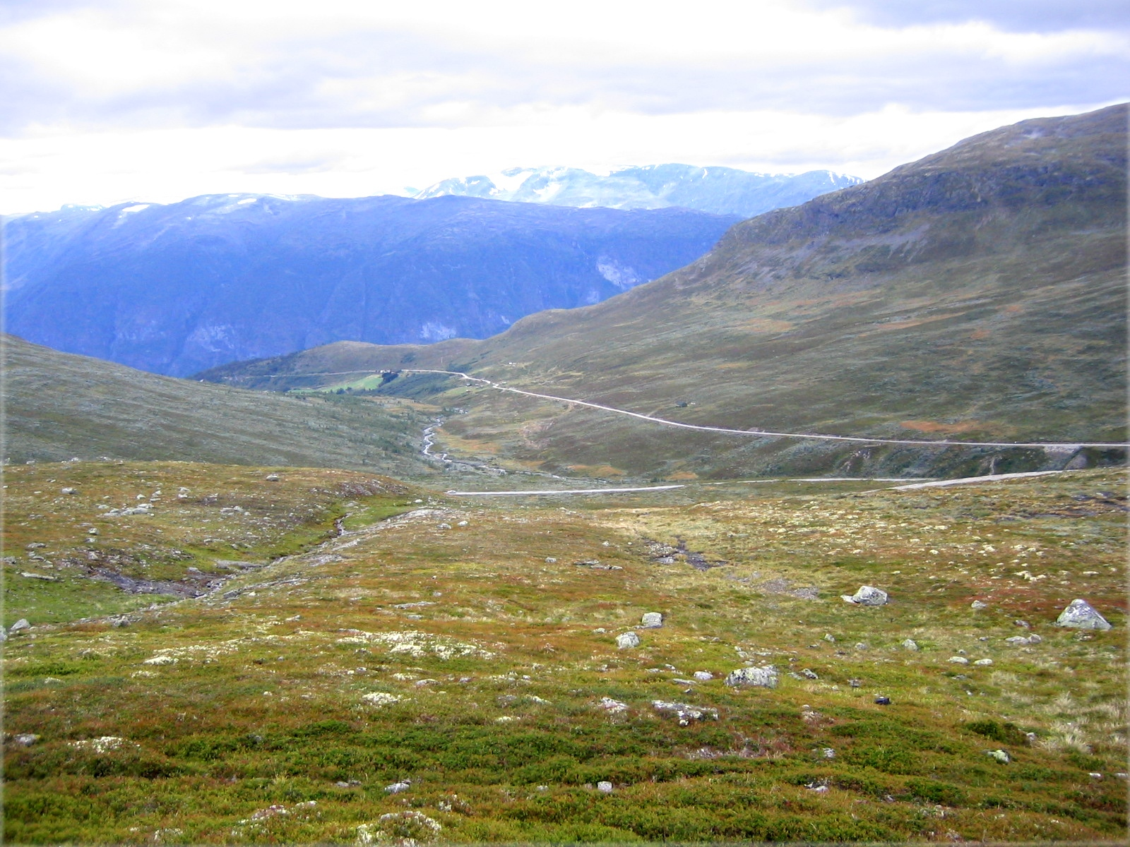 Old mountain pass from Aurland to Lærdal (above theLærdalstunnelen)